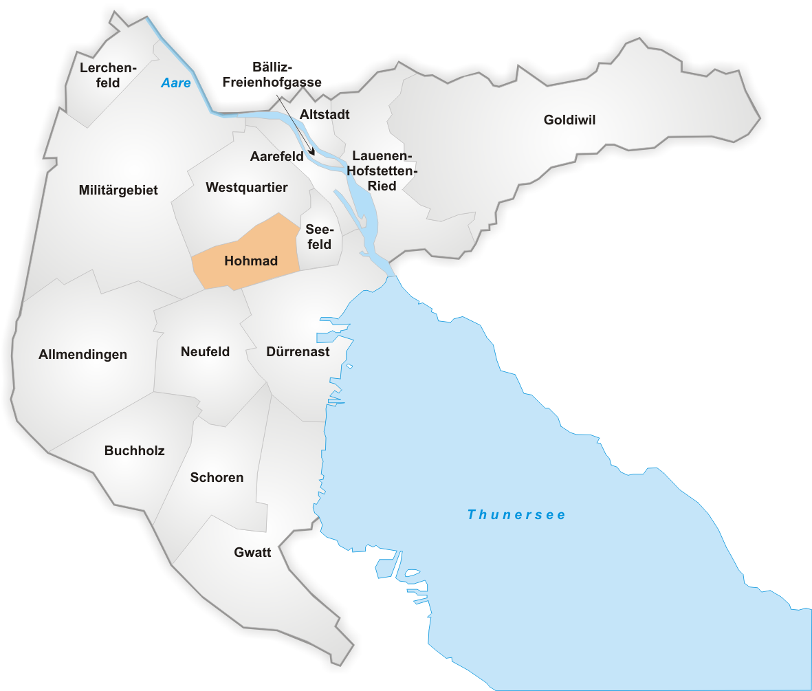 Thuner Quarter Hohmad